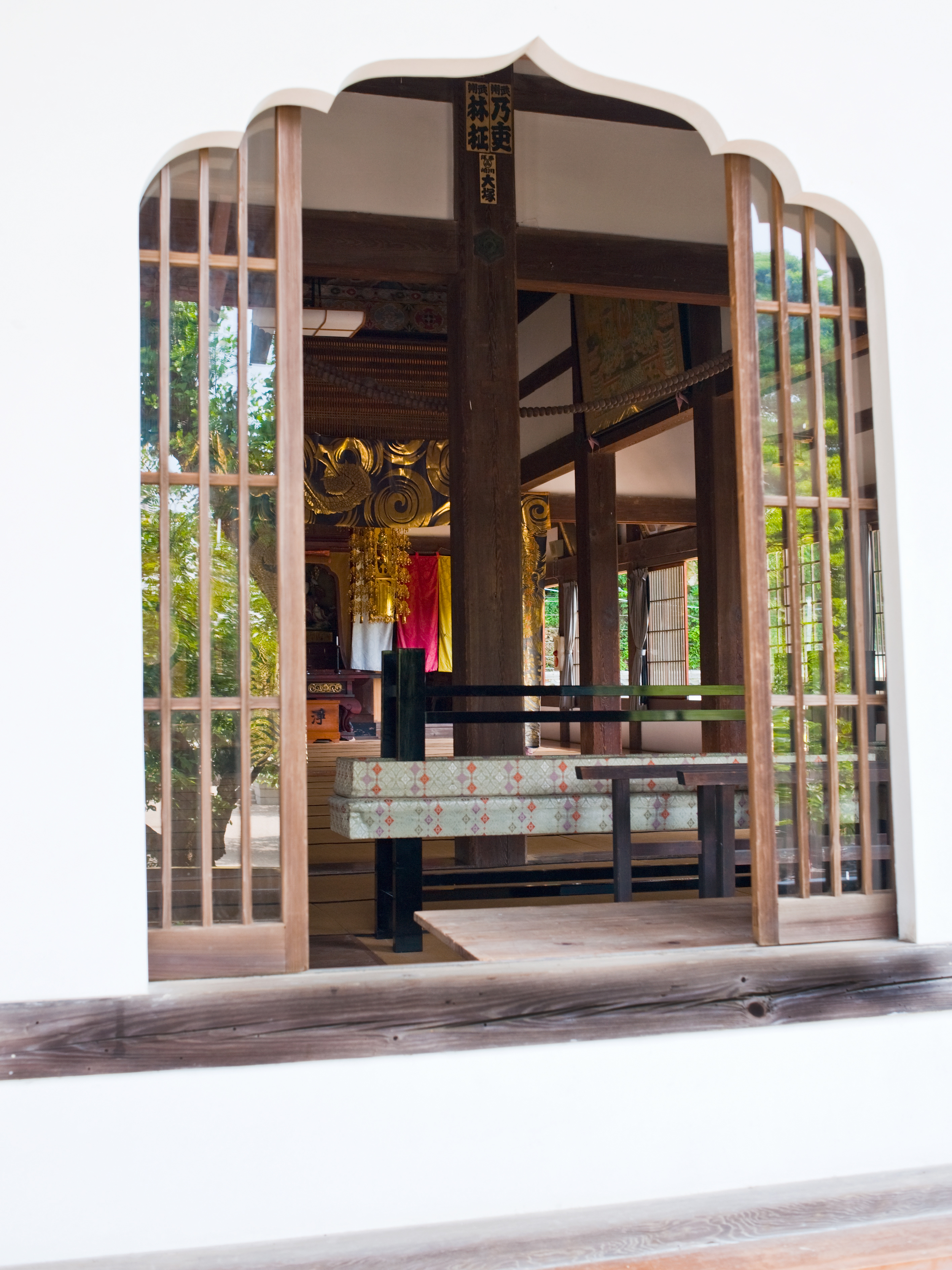 A katōmado, a bellshaped windows commonly found in Buddhist temples in Japan.